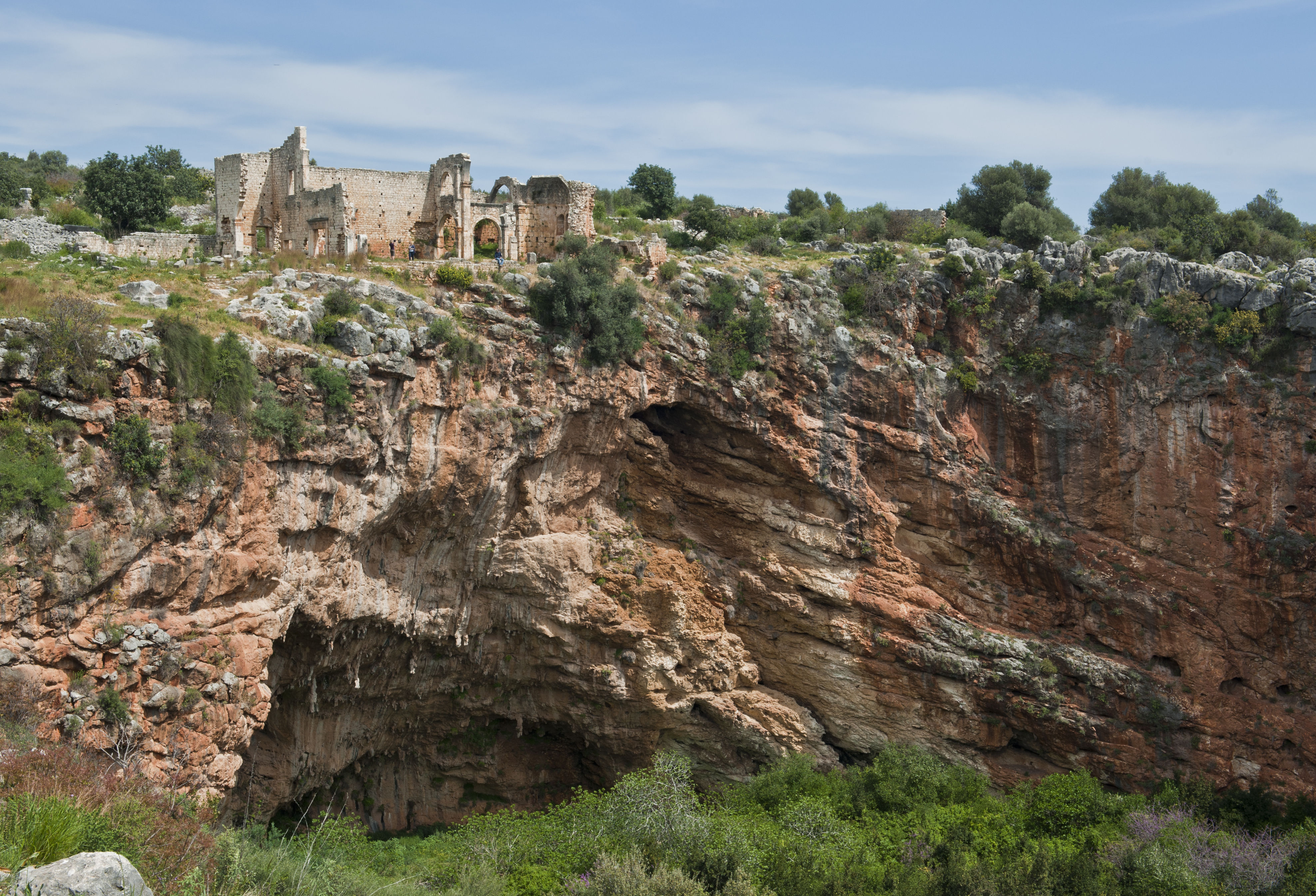 Ancient Byzantine ruins sit on the edge of a sink hole March 31, 2013, at Kanlidivane, Turkey. Legend explains that wrong doers would be hurled into the sink hole to pay for their crimes, where wild animals awaited them. Kanlidivane is one of several trips offered by various agencies at Incirlik Air Base, Turkey.